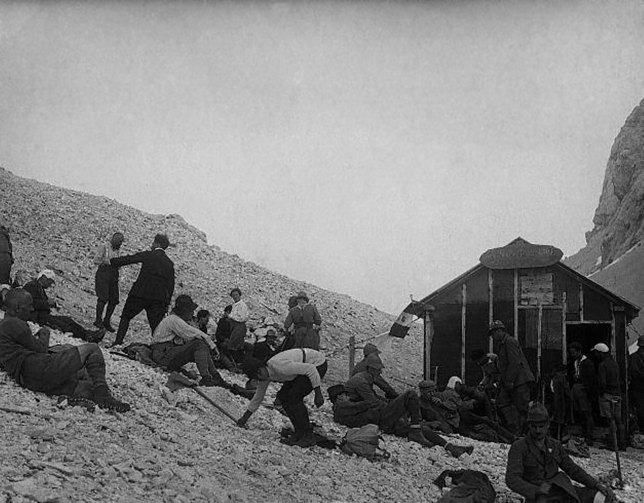 Morbegna 1920 or 1921